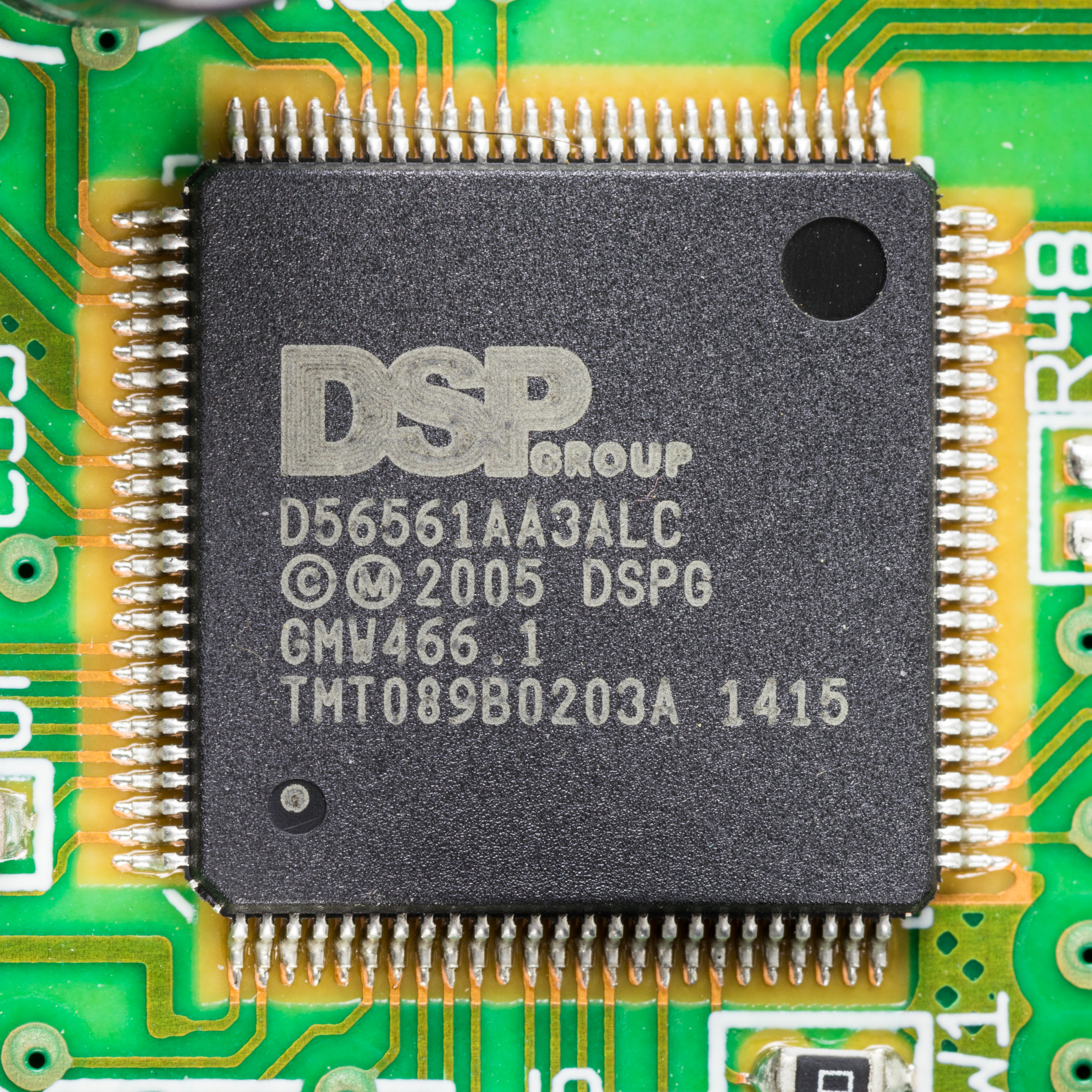 Gigaset DA810A - board - DSP Group D56561AA3ALC